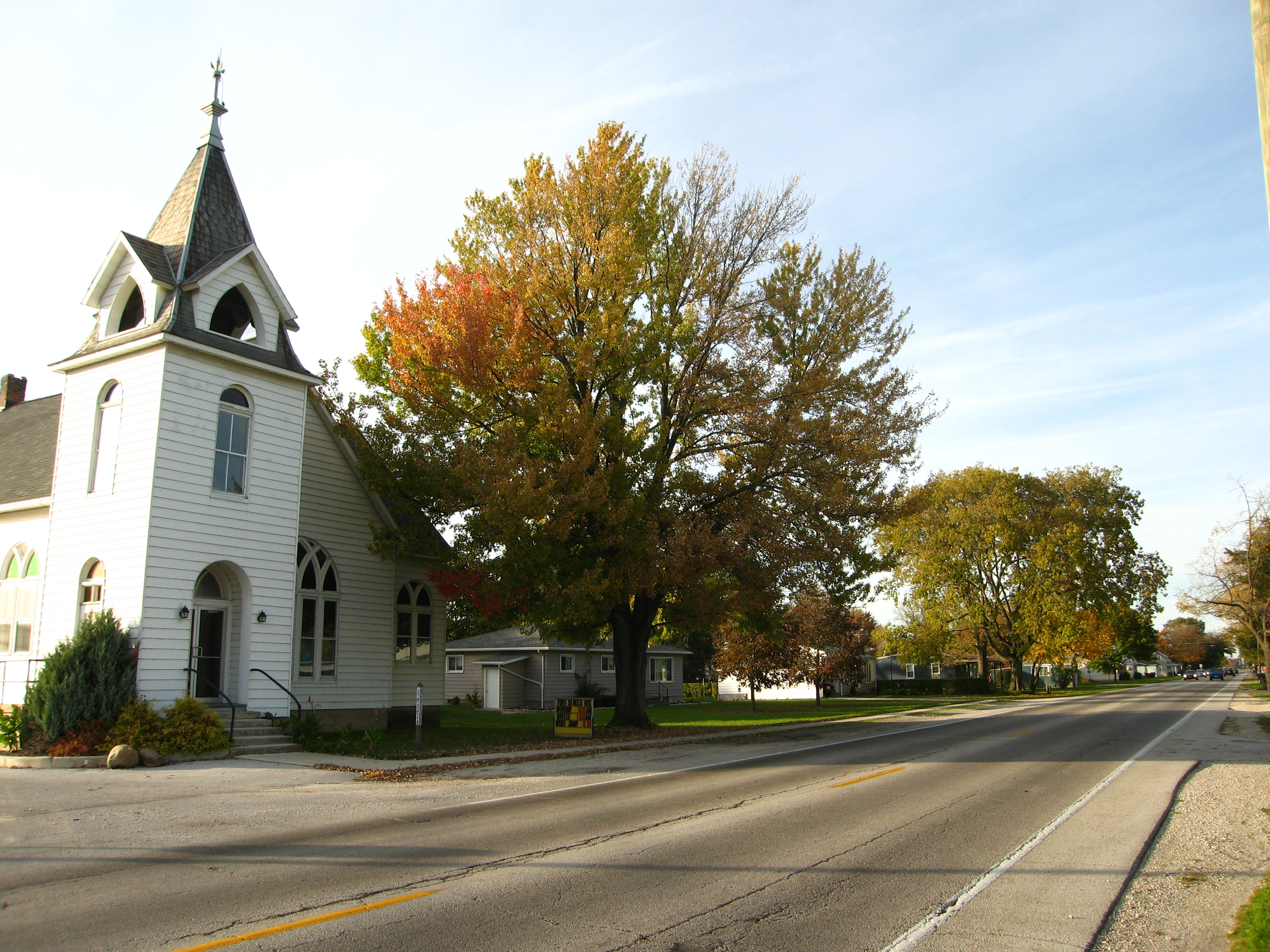 Photograph of the unincorporated community of Fort Seneca, Ohioen, taken at street level from Fremont-Tiffin Road, looking North on Ohio 53.